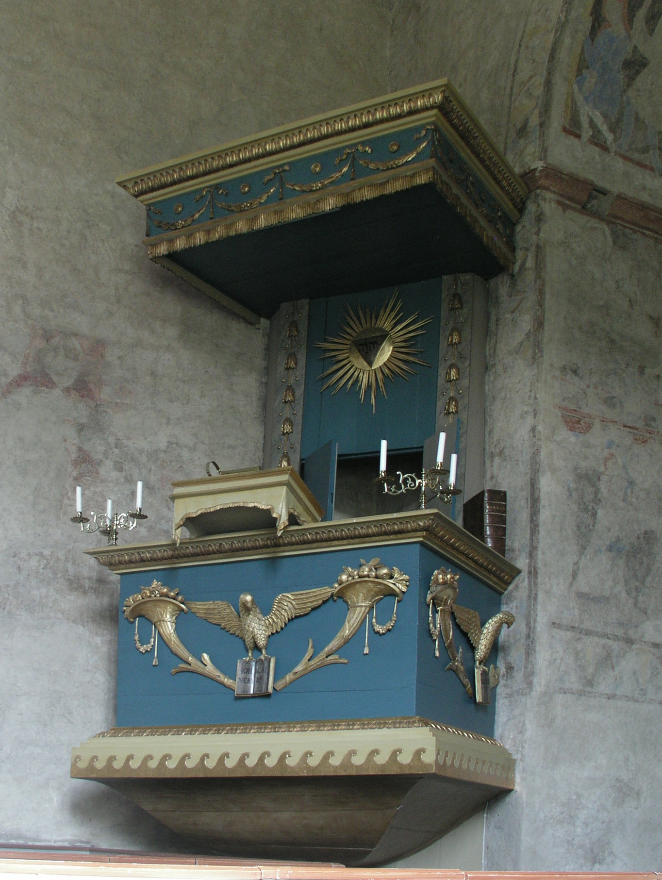 Resmo kyrka/church, Mörbylånga. Pulpit. The photo was taken by Håkan Svensson (Xauxa) the 2nd of August 2005.